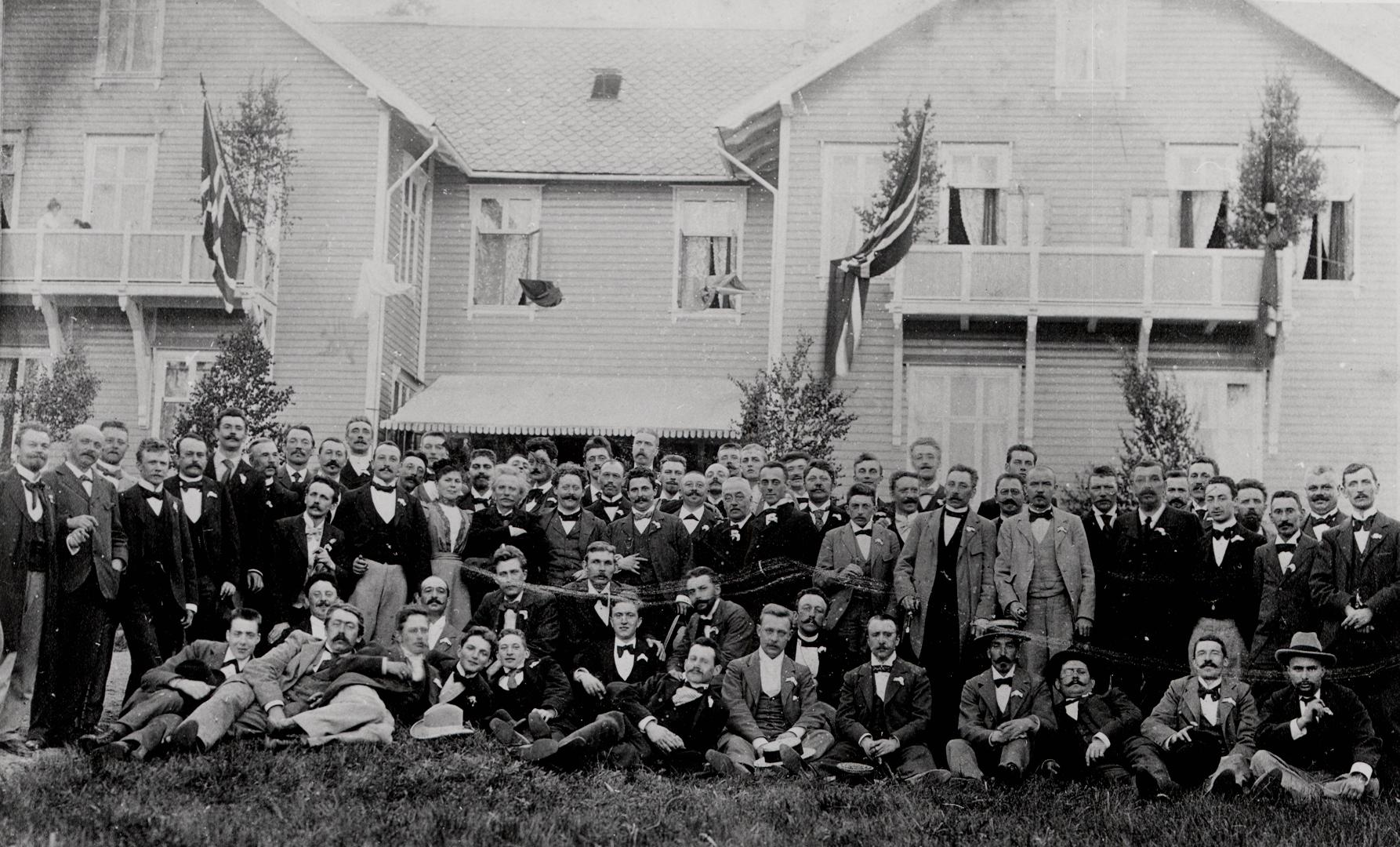 Artist: unknown Date/place: 1898, Solstrand/Bergen/Norway Subject: the Concertgebouw Orchestra Medium: photographic positive, B&W Notes: taken in relation to the grand music festival in Bergen 1898, original found in the collection of Bergen University Library Persistent URL: Original belongs to the Edvard Grieg Archives at Bergen Public Library